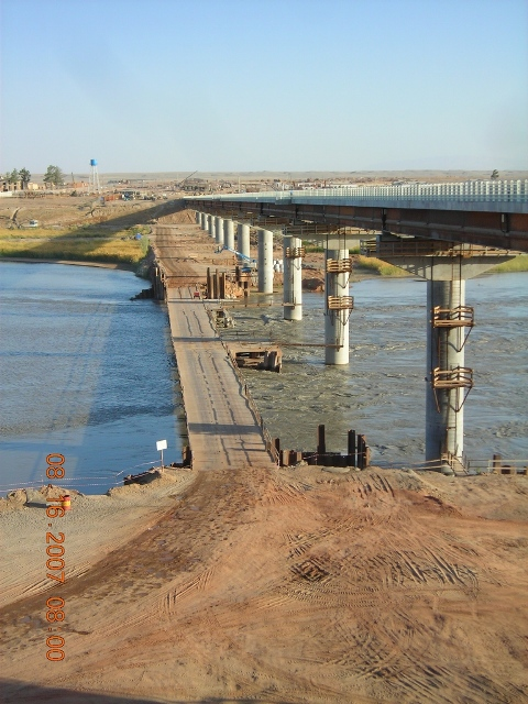 Afghanistan-Tajikistan Bridge nears completion. Photo taken from the Tajikistan side of the bridge.